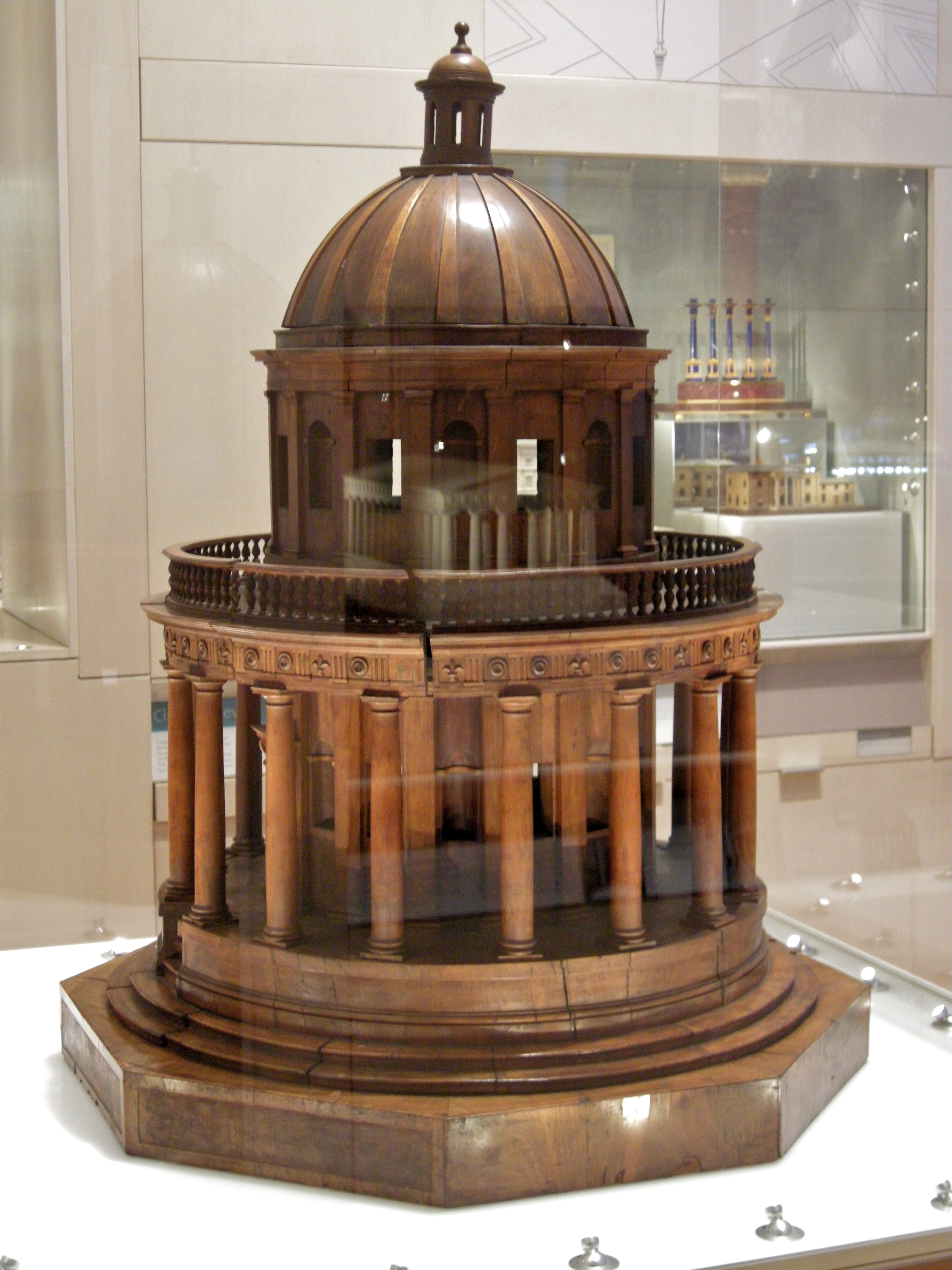 Model of Bramante's Tempietto of San Pietro in Montorio unknown maker 1830-1900 The Tempietto (little temple) marks the traditional site of St Peter's martyrdom. It is built in the Doric order, used by the Romans for important male gods and here for the chief saint of the Christian church. The building perfectly expresses the balanced proportions and pure volumes of Renaissance architecture. Modelled after the Tempietto, Donato Bramante (1444-1514) Walnut and pearwood Museum no. A.5-1987 Wikipedia Loves Art at the Victoria and Albert Museum This photo of item # A.5-1987 at the Victoria and Albert Museum was contributed under the team name "VeronikaB" as part of the Wikipedia Loves Art project in February 2009. Victoria and Albert Museum The original photograph on Flickr was taken by VeronikaB—please add a comment to the original Flickr page whenever a use has been made on Wikipedia or another project. Project galleries on Flickr: this institution, this team